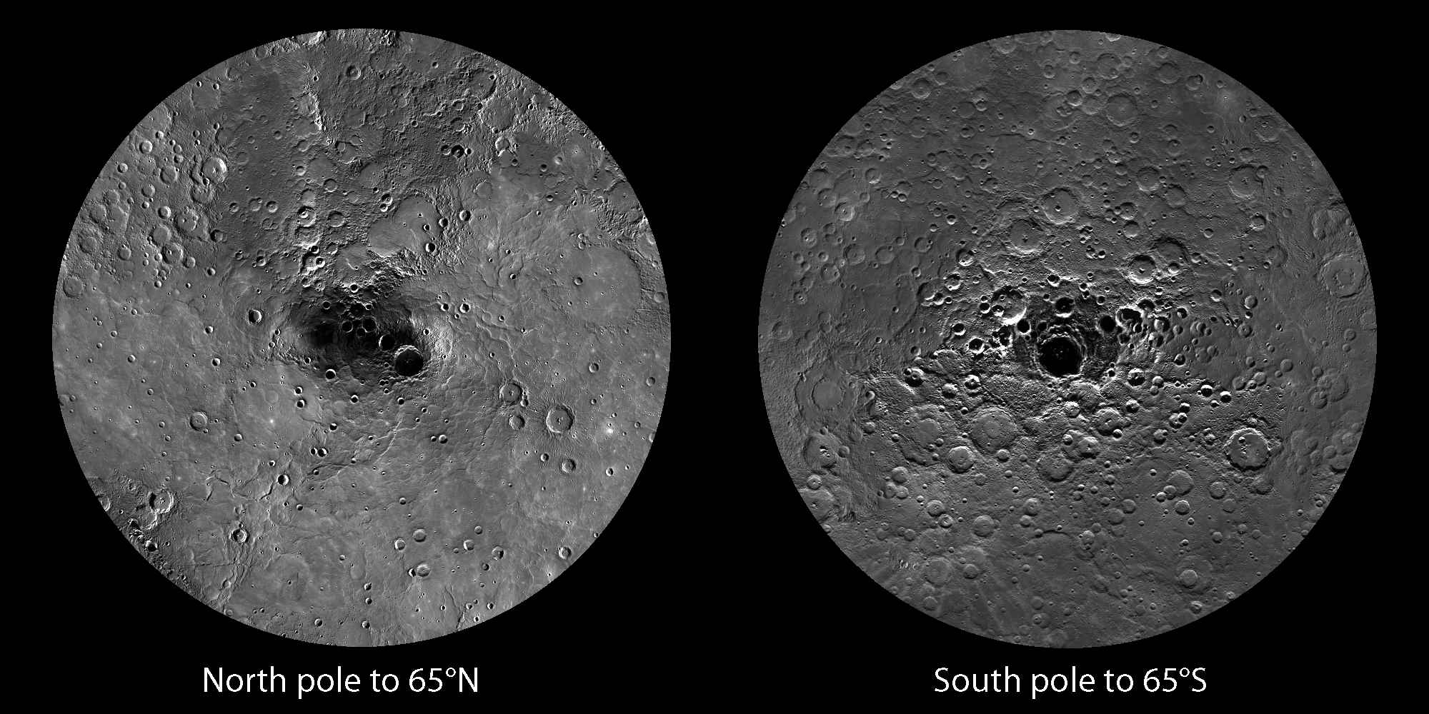 MESSENGER spacecraft orbital mosaics of Mercury's North and South Poles